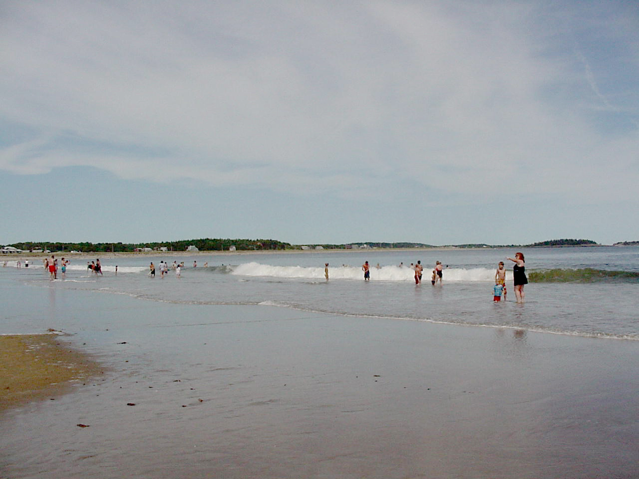 Popham Beach, Maine